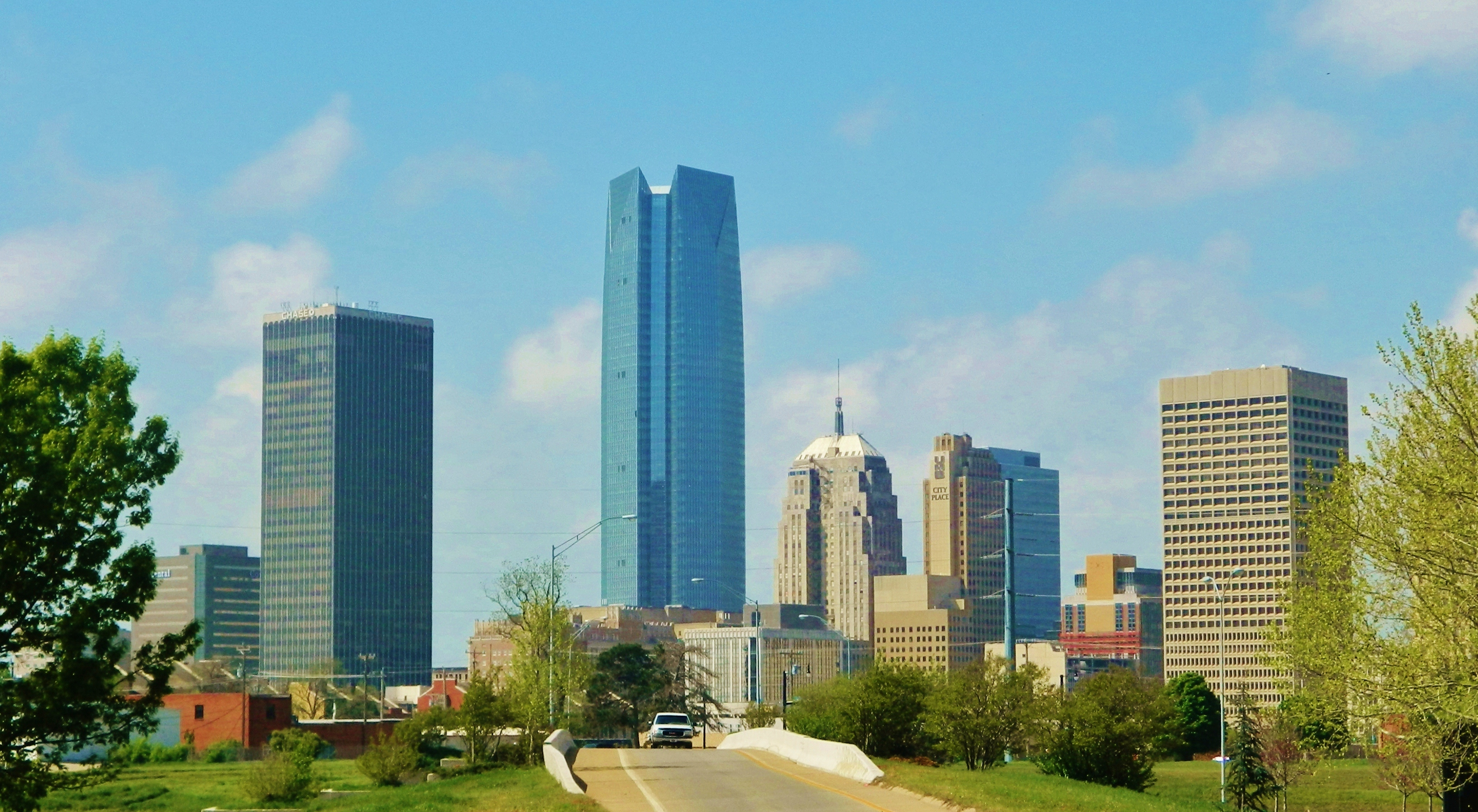 Skyline of Oklahoma City, looking southwest.